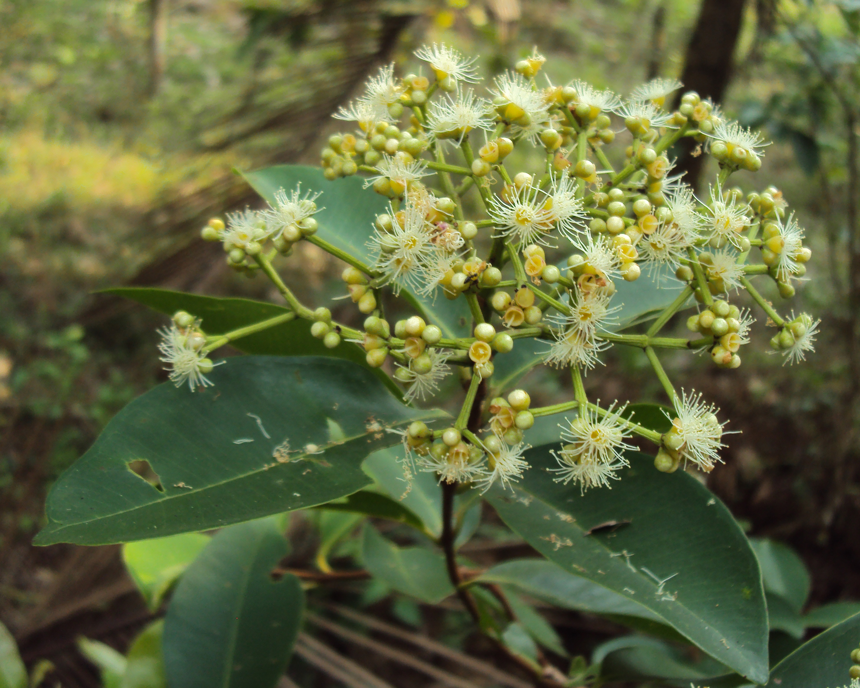 Syzygium caryophyllatum